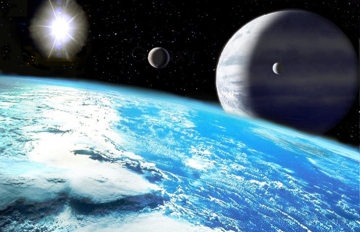 Extrasolar planet Upsilon Andromedae d lies in the habitable zone and if it has moons large enough, they may be able to support liquid water, as the image shows. On the horizon of this hypothetical earth-like moon can be seen Upsilon Andromedae d, possibly a class II planet (Sudarsky classification): since it is too warm to form ammonia clouds, the visible top ones are mostly made up of water vapor, white in colour instead of the characteristic yellow-reddish clouds of Jupiter and Saturn, and with some bluish hue due to the rayleigh scatterig.